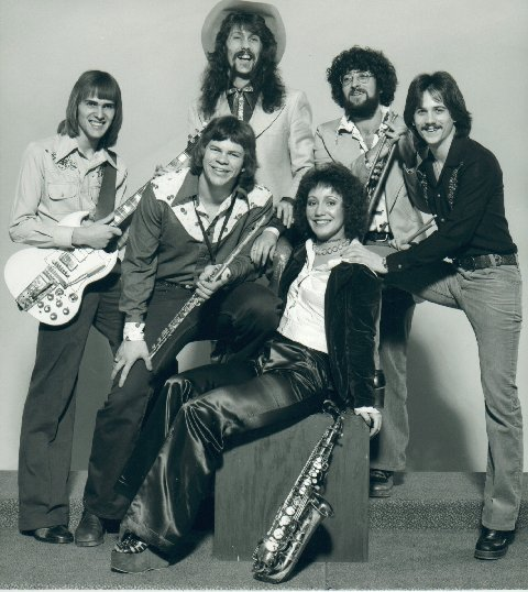 SkipVanWinkleband1972